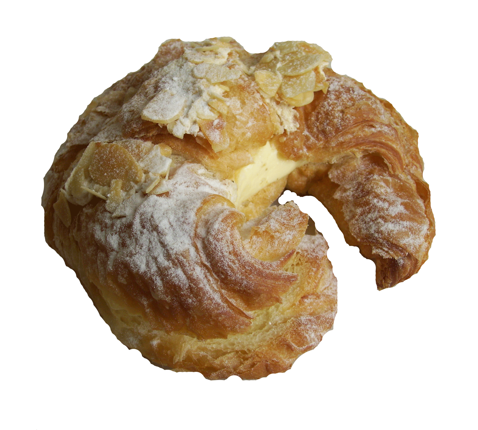 la parisienne almond croissant.gif